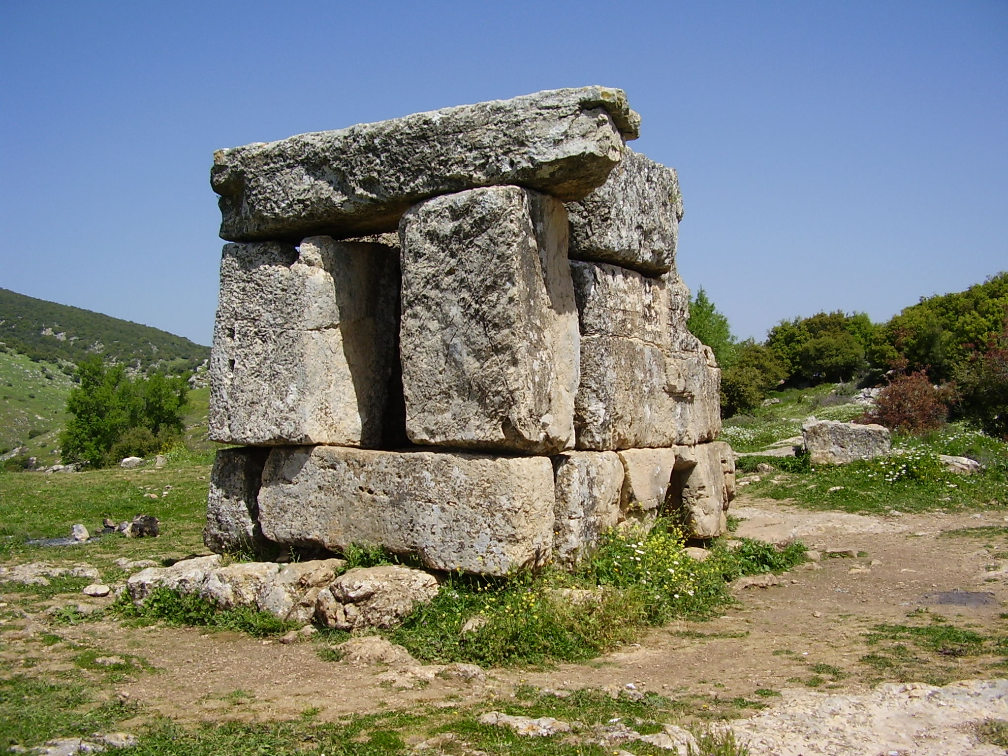 Shamai's tomb in Mt. Meron